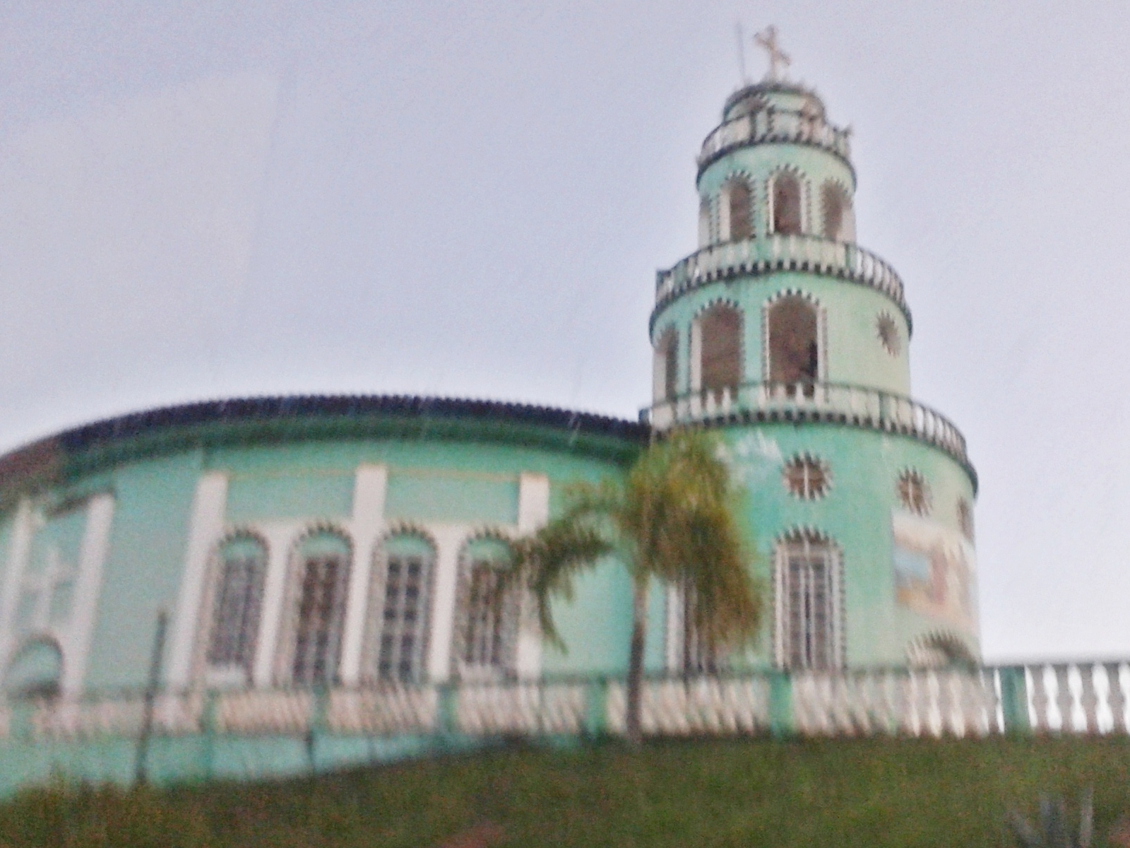 Partial view of the Holy Family Church, in Córrego Novo, Minas Gerais, Brazil.